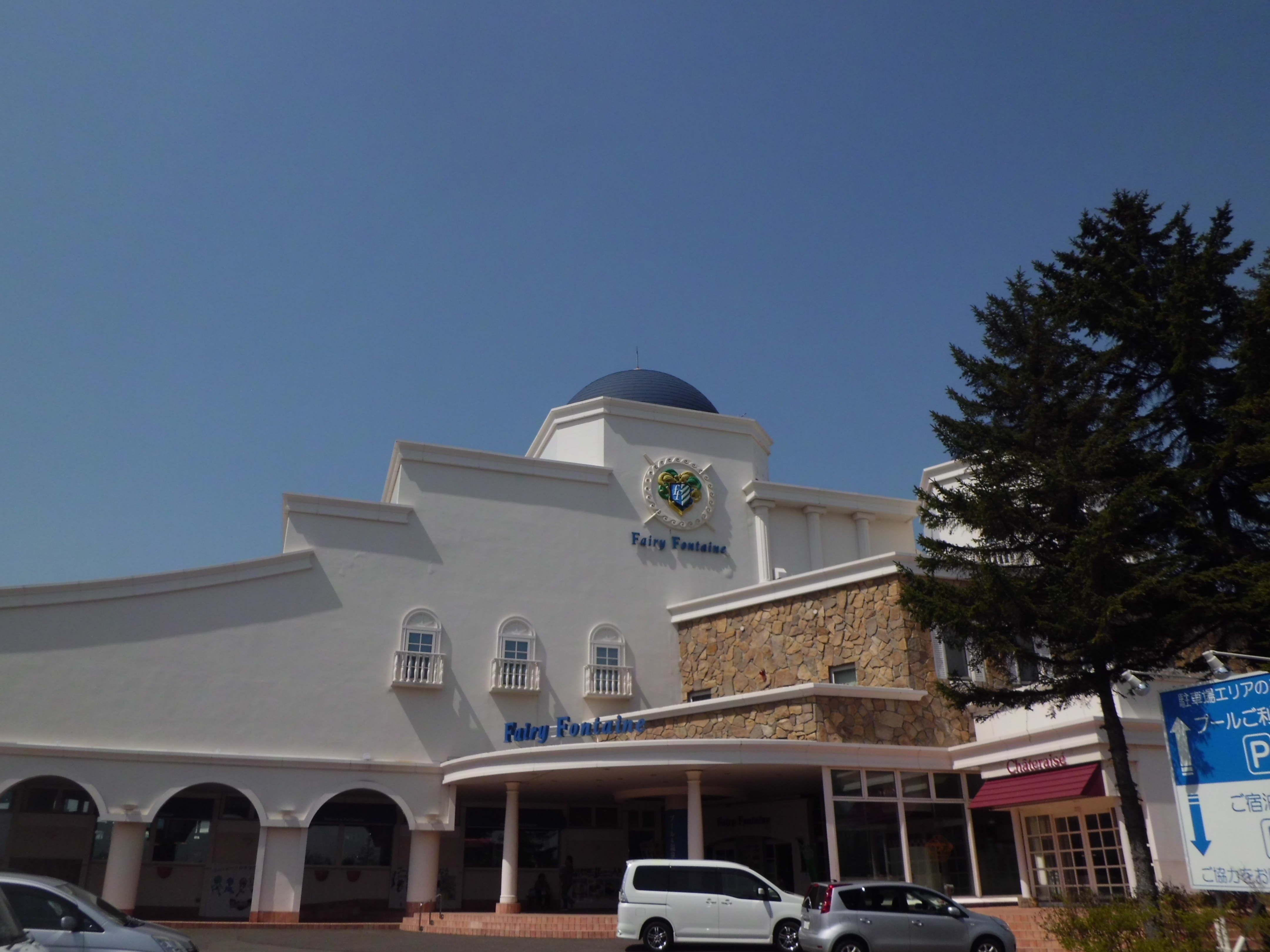 Fairy Fountaine